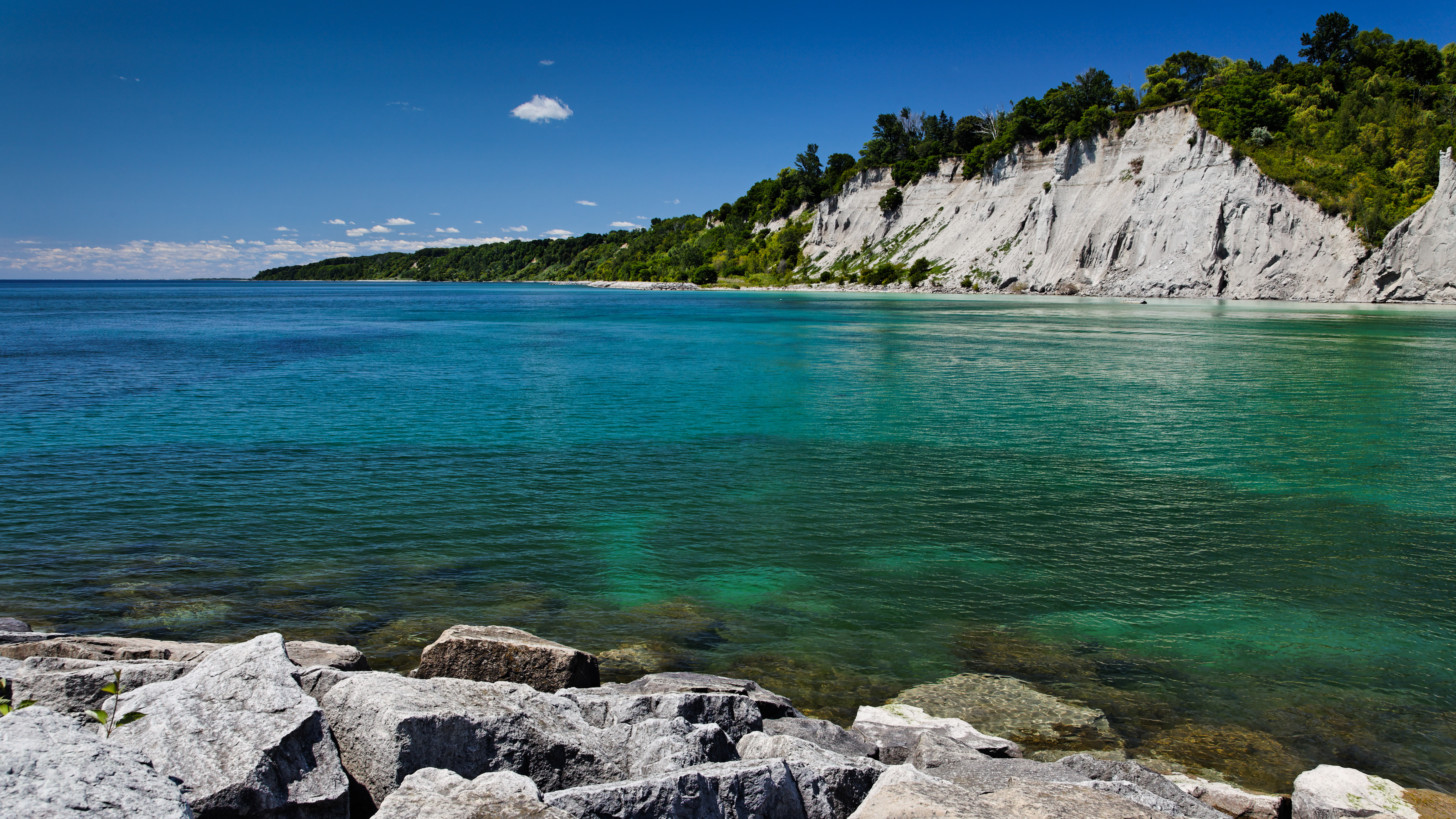 The following is the author's description of the photograph quoted directly from the photograph's Flickr page."Kinda looks like a wonderful beach postcard but its not.I wouldn't wanna swim in there cause I think untreated storm drain water drains into here. Given that fact, I wonder how the water still remains so clear.... Taken at Bluffer's Park, Scarborough, Onatrio "